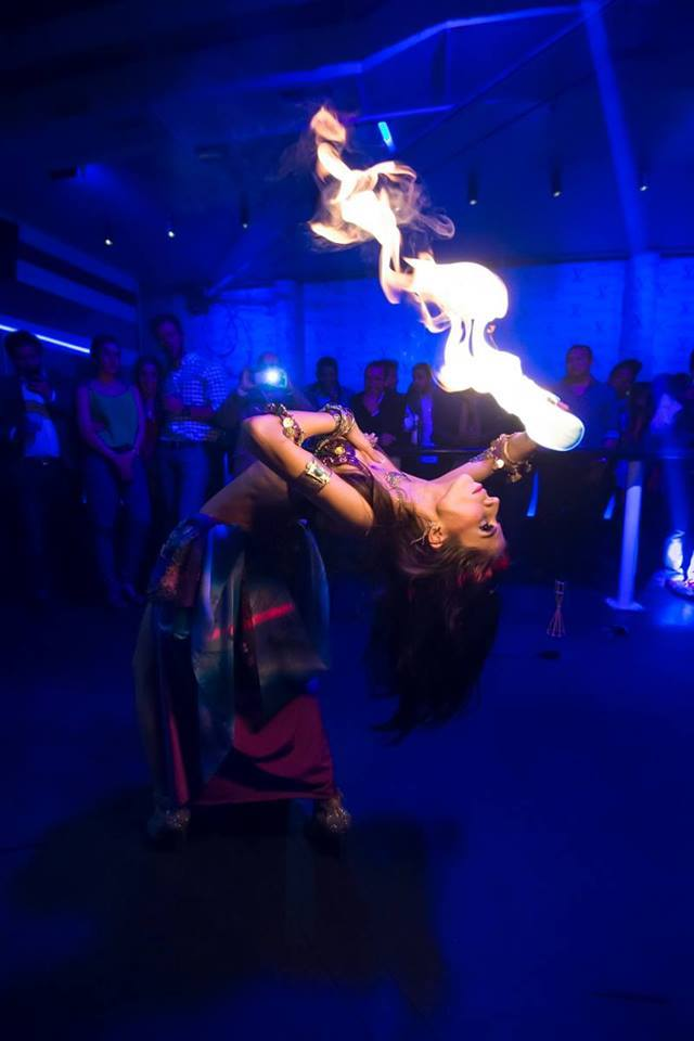 Fire Artist in Houston TX with Staff